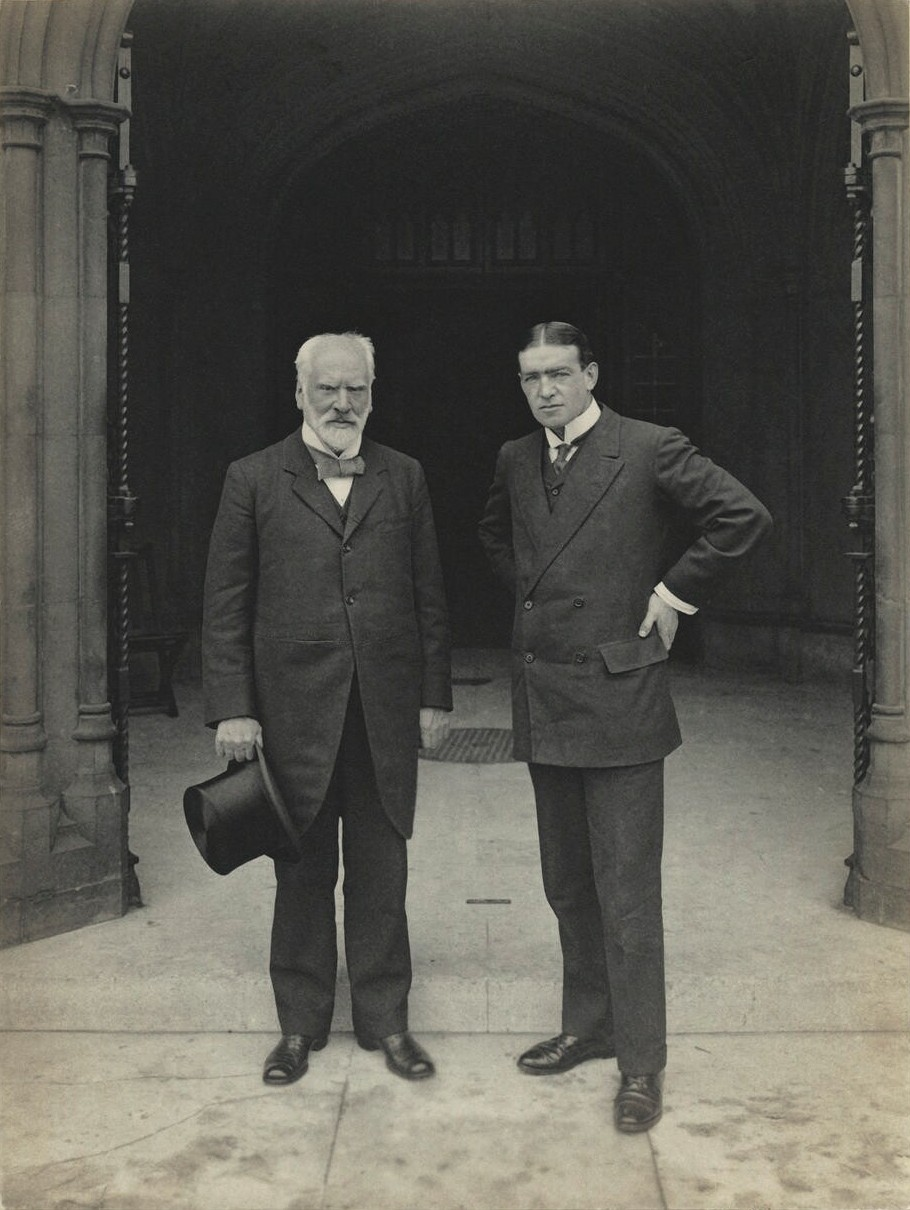 Sir Edwin Pears; Sir Ernest Henry Shackleton foto